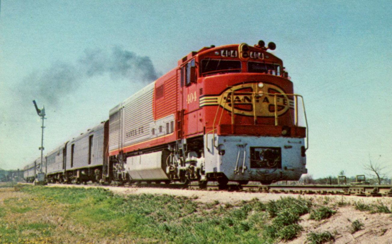 Postcard photo of the Santa Fe train The Tulsan pulled by a GE U30C locomotive.